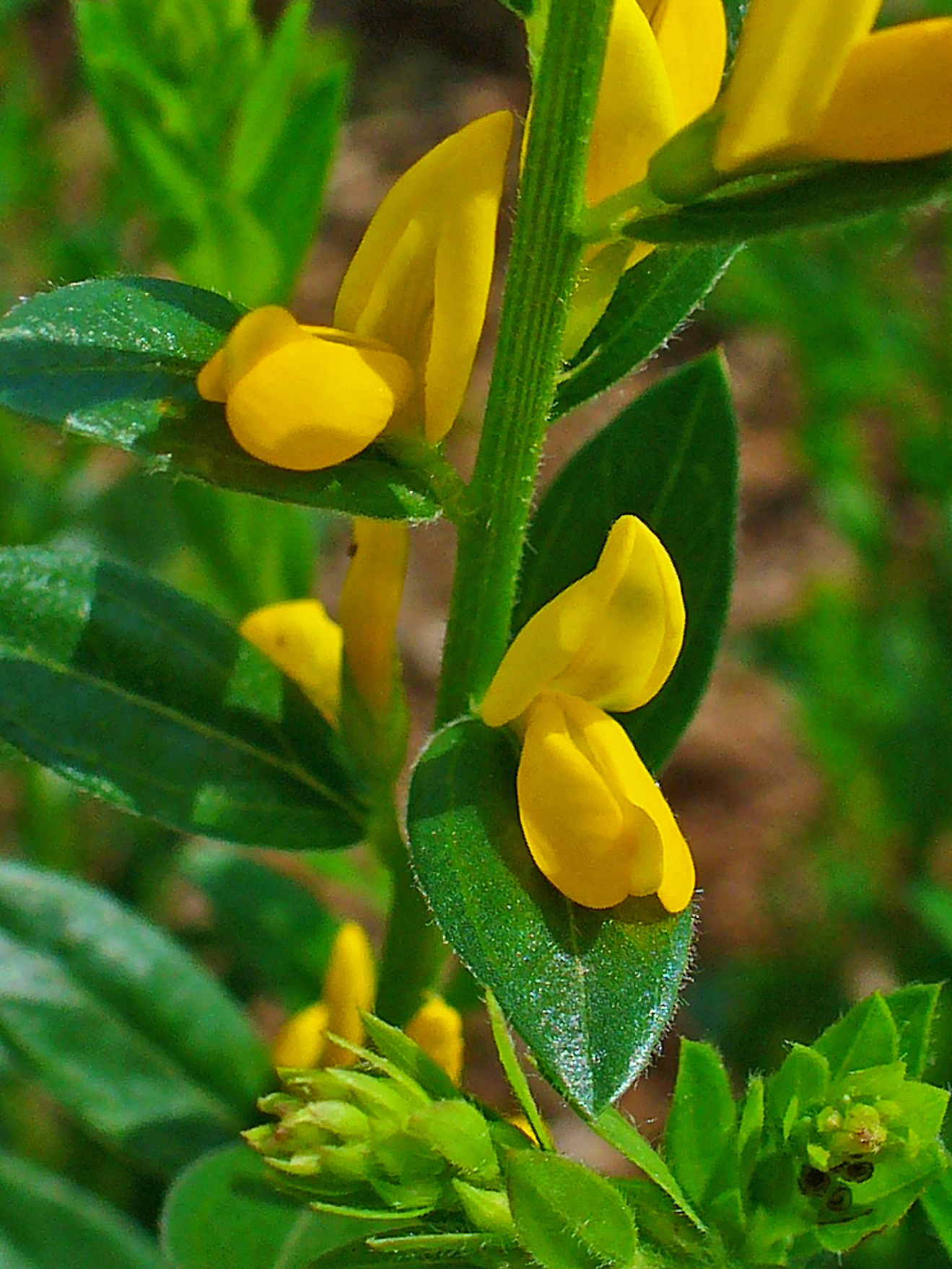 Genista tinctoria, Fabaceae, Dyer’s Greenweed, flowers. The plant is used in homeopathy as remedy: Genista tinctoria (Genist.)